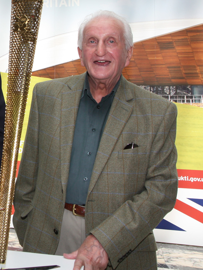 Foreign Office Minister Jeremy Browne with Wu Chengzhang and Lionel Price who competed in Basketball at the 1948 London Olympic Games, 6 August 2012. Read more